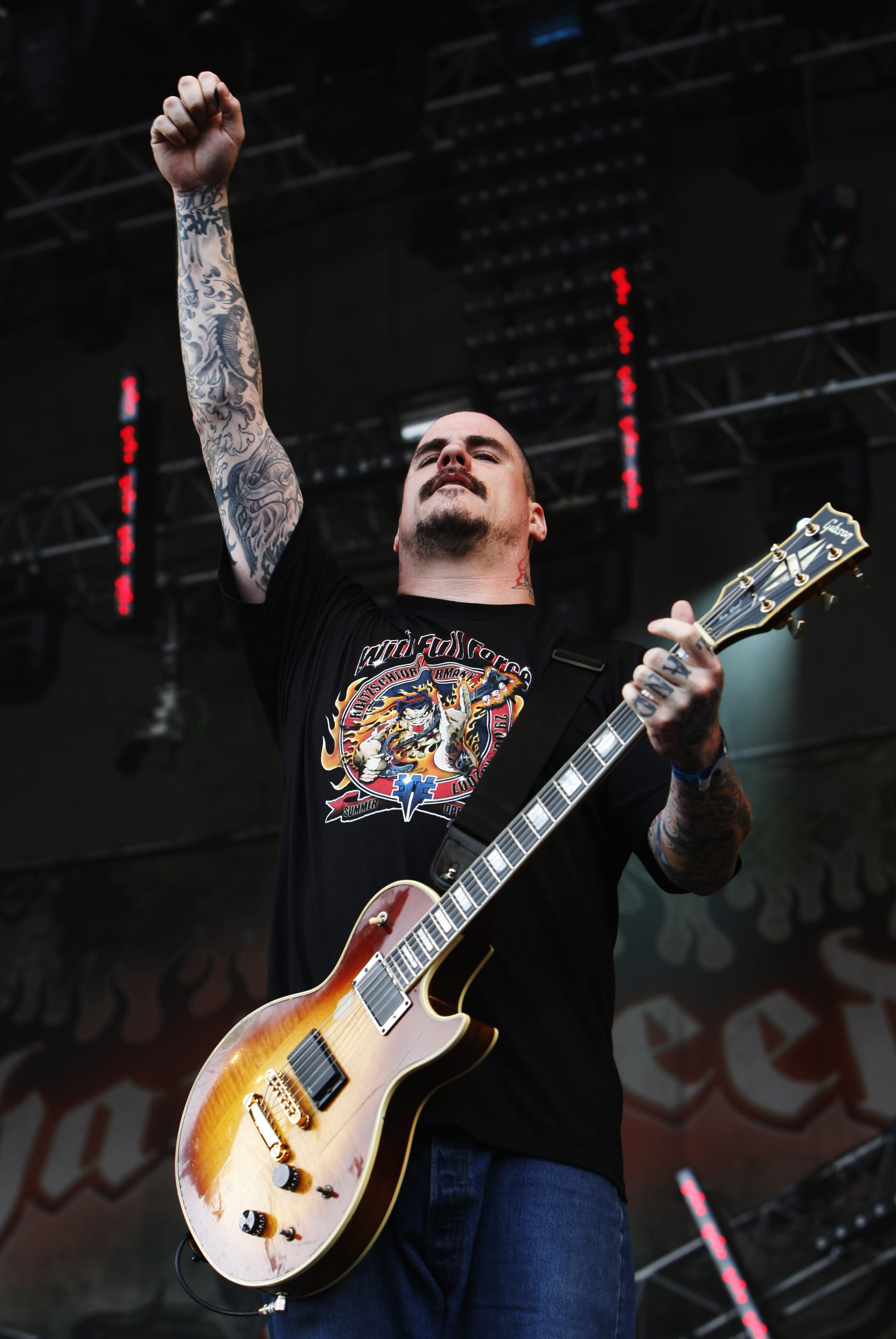 Hatebreed at the Eurockéennes of 2007